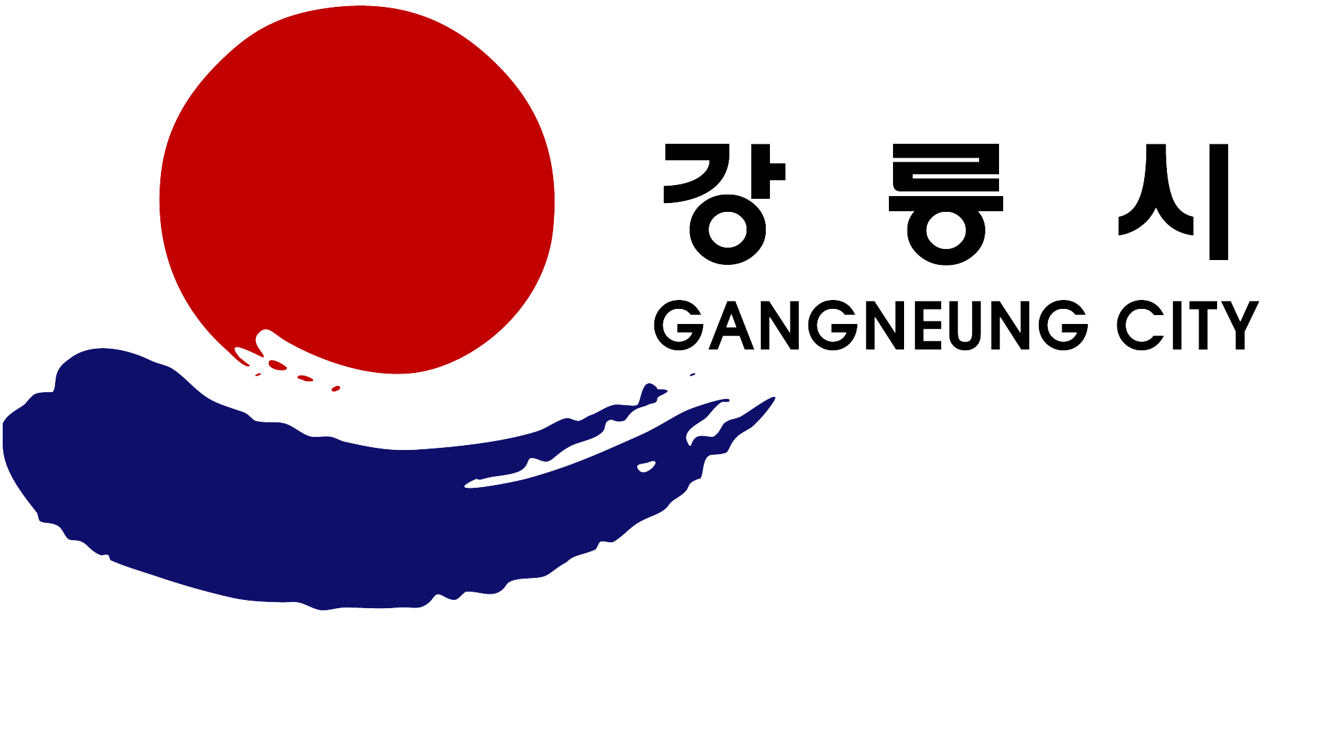 City logo of Gangneung, Gangwon-do, Korea